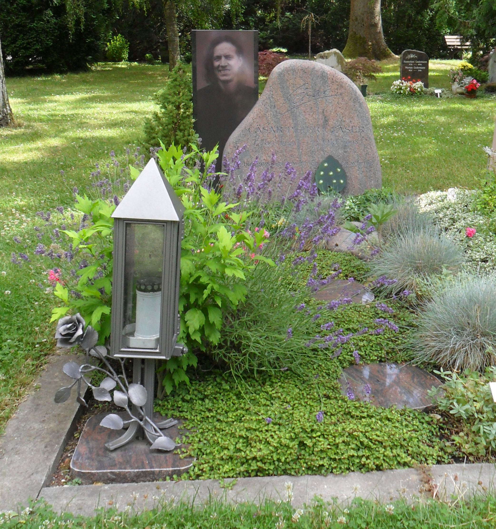 grave with stone of Cäsar Peter Gläser, Leipziger Südfriedhof